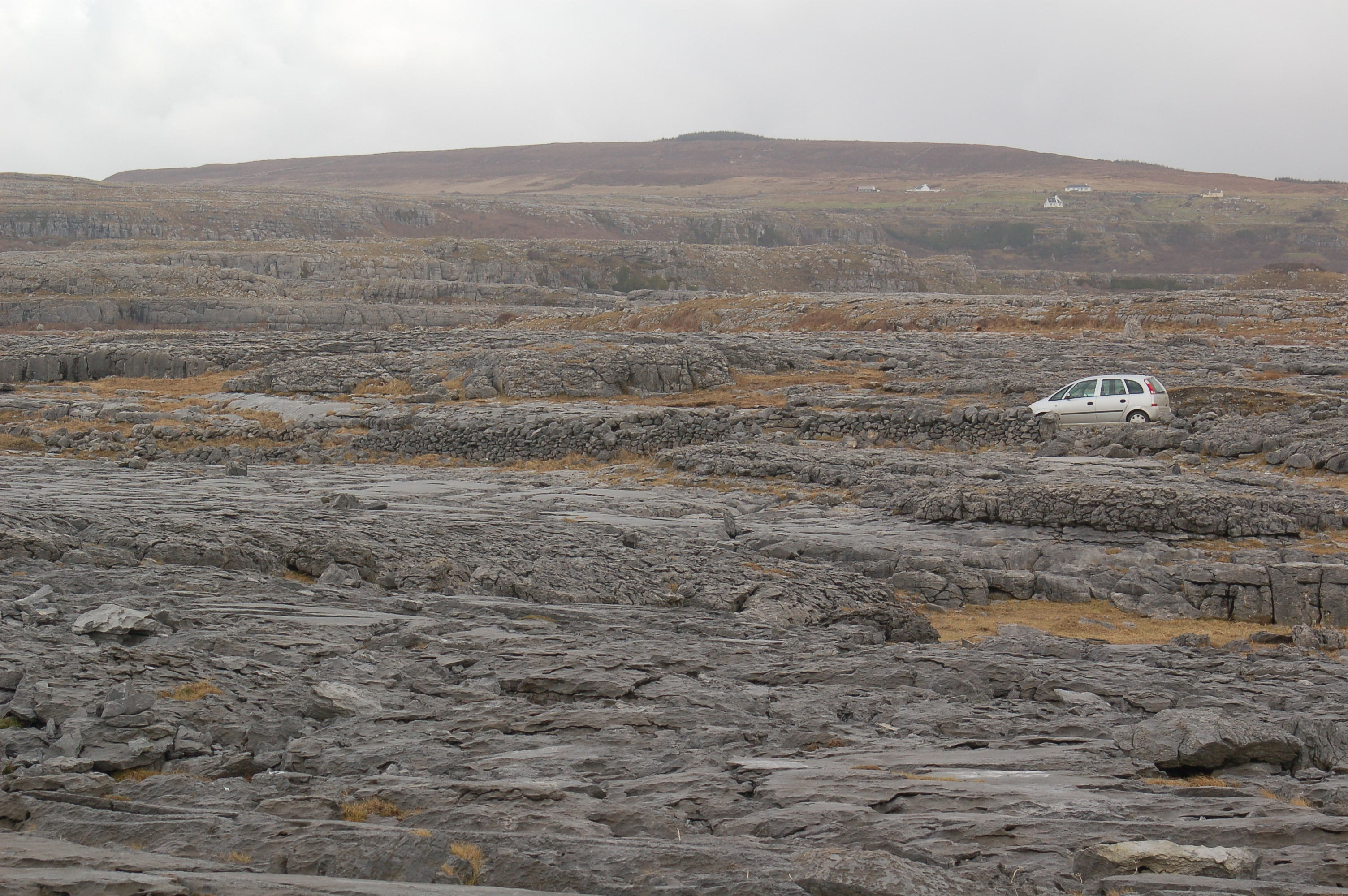 The Burren, County Clare, Ireland